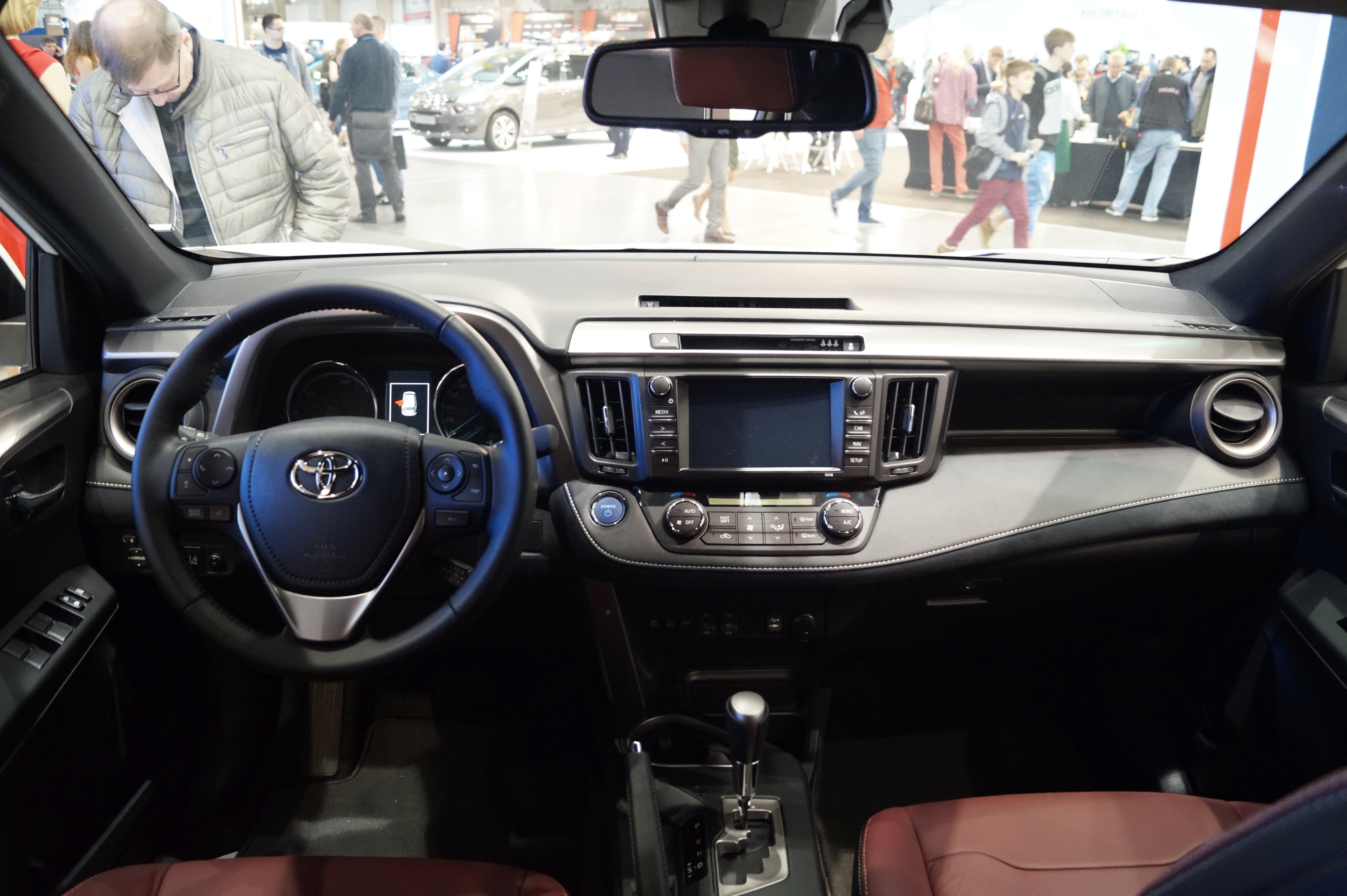 The making of this document was supported by Wikimedia Polska Association, within Wikigrant no. WG 2016-10. English | polski | +/− Wnętrze Toyoty RAV4 Hybrid na Motor Show Poznań 2016